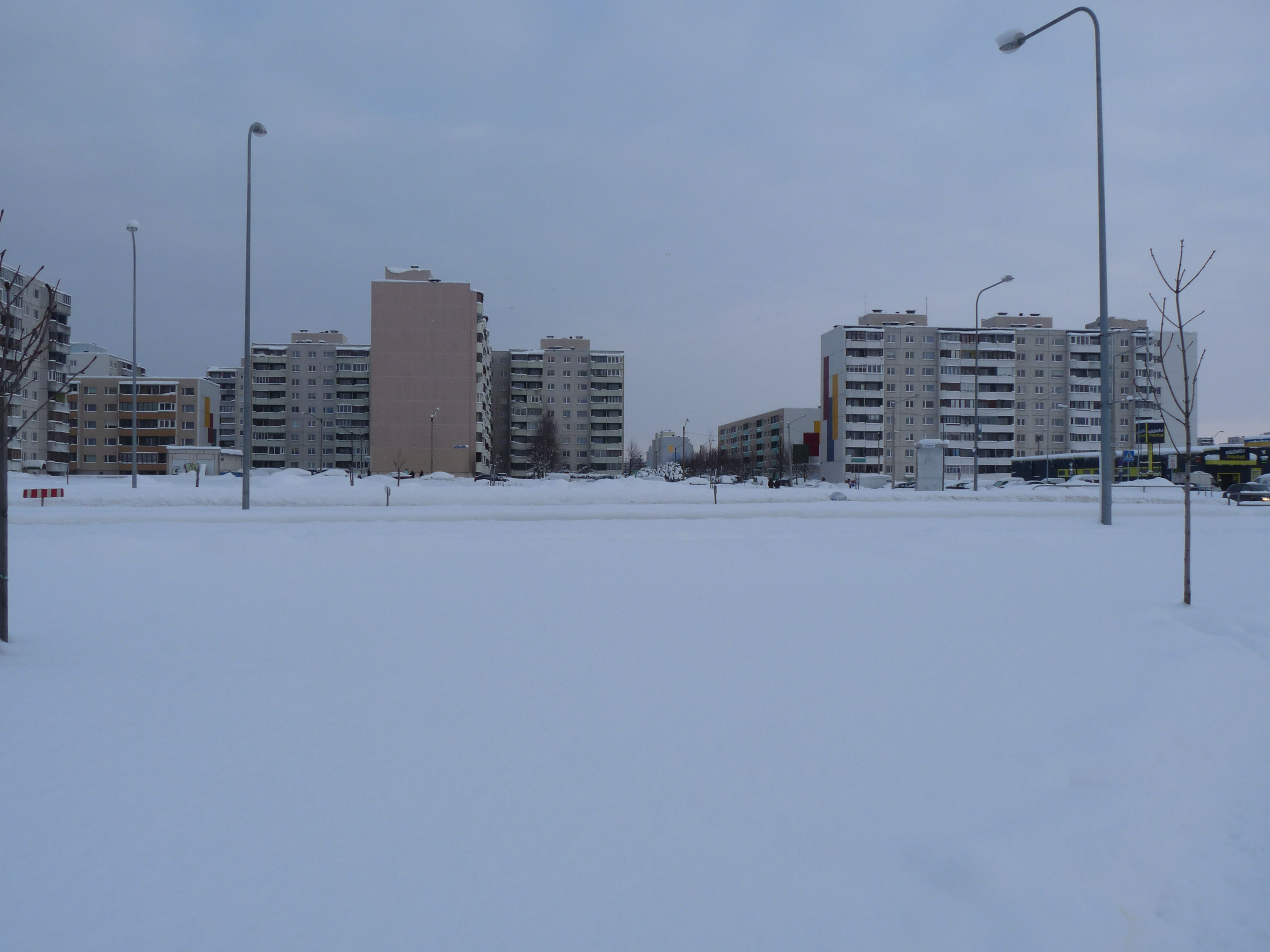 An intersection of Mustakivi and Läänemeri streets in Tallinn Reused: Delfi reader: "Why should we live in cold apartments during winter cause of another's debts?"